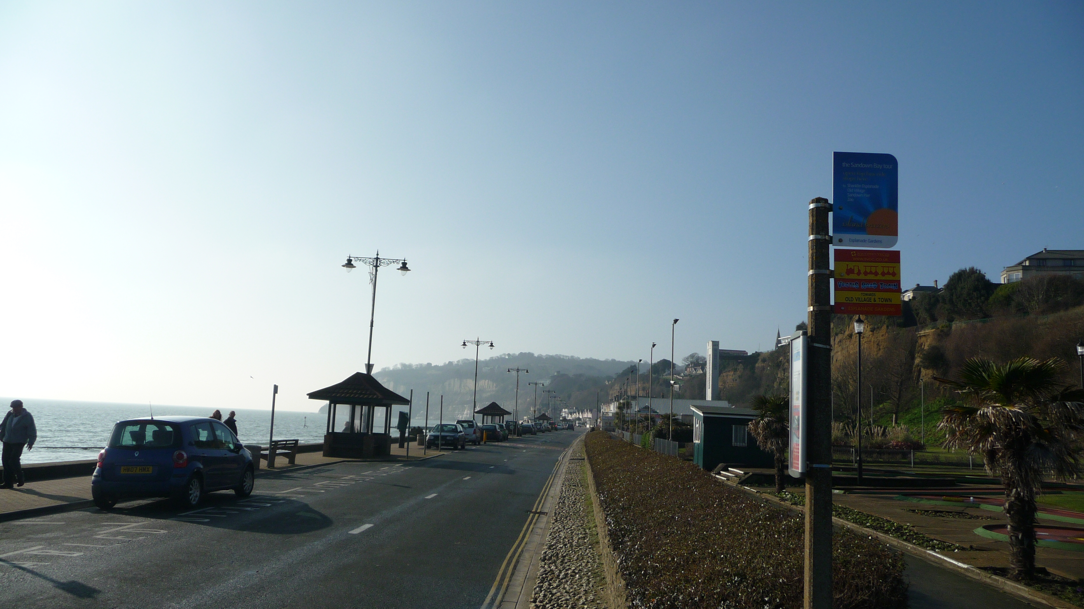 The bus stop at Shanklin Esplanade Gardens, Shanklin Esplanade, Shanklin, Isle of Wight. It serves the Southern Vectis Sandown Bay Tour, and the Road Train, during the summer. It also is served by Wightbus throughout the year on limited service 24.